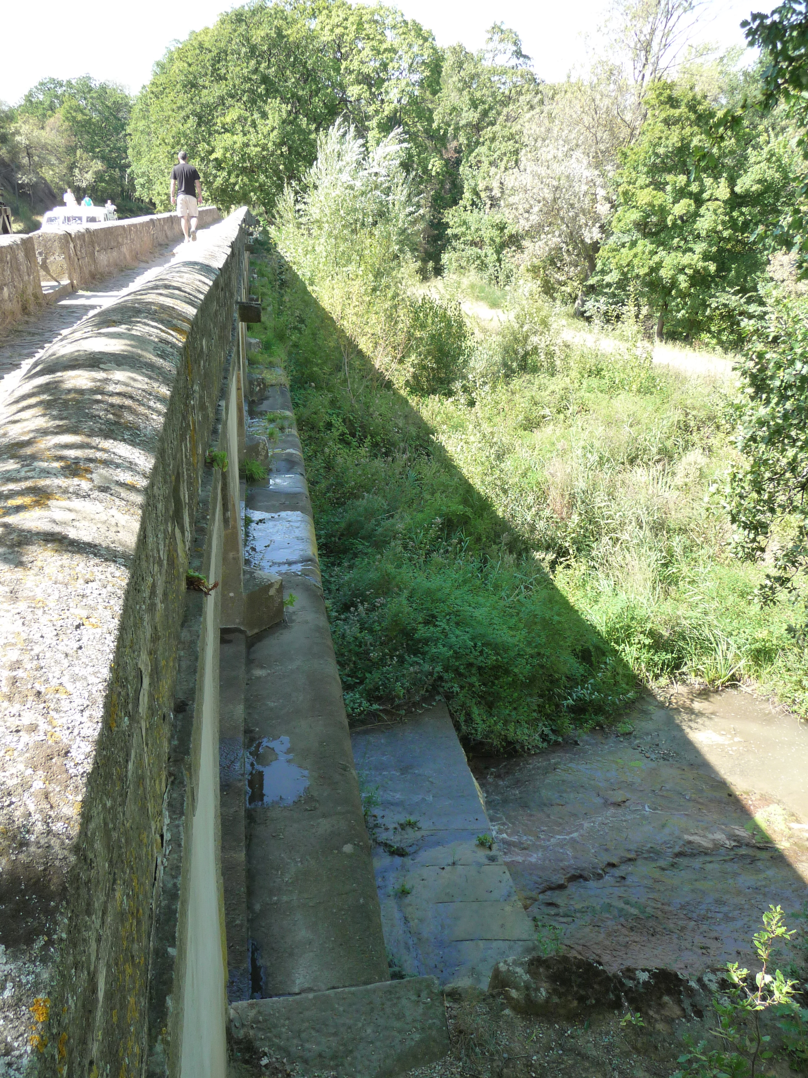 The Argent Double aqueduct on the Canal du Midi looking westwards